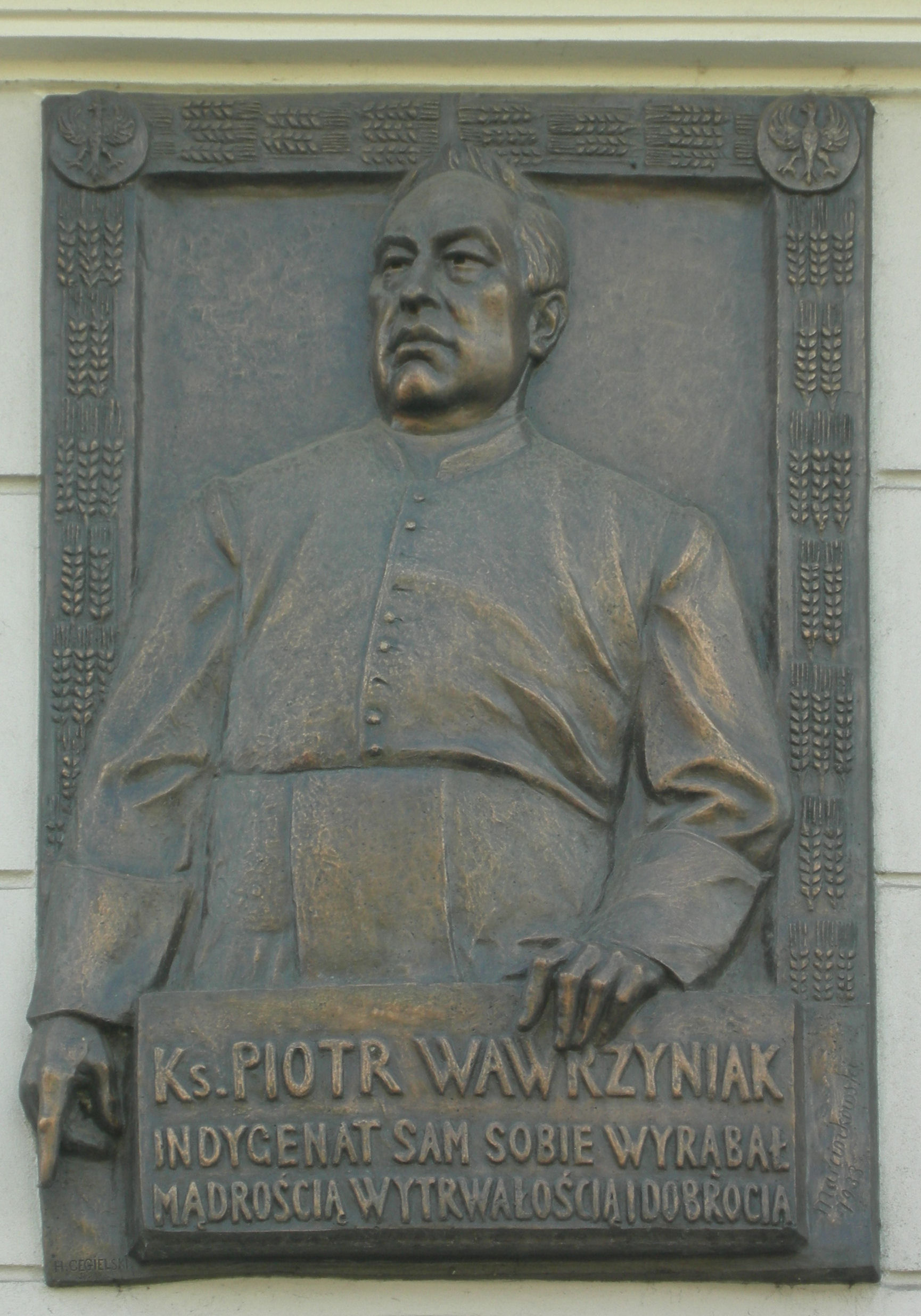 Plaque - priest Piotr Wawrzyniak, Śrem, Greater Poland Voivodeship , Poland